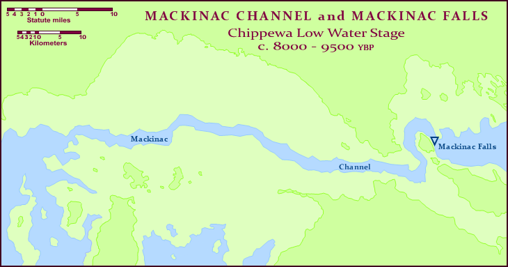 A map of the Mackinac Channel, an incised river channel through which the waters of proglacial Lake Chippewa (Michigan) drained into proglacial Lake Stanely (Huron), passing over Mackinaw Falls en-route. At that time, both lakes drained to the sea through an isostatically-depressed valley in the North Bay (Ontario) area. As the land rebounded and closed off that drainage route, water levels in the upper Great Lakes rose, covering both the channel and the falls.